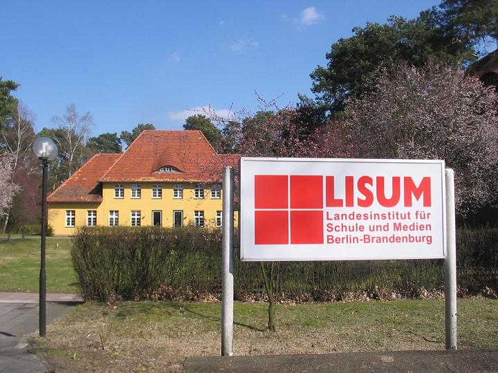 „Landesinstitut für Schule und Medien Berlin-Brandenburg“ (german for: country institute for school and media Berlin-Brandenburg) in Struveshof, former „Landwirtschaftliche Erziehungsanstalt“ (german for: agrarian reformatory), built in 1914ff, since 1961 part of Ludwigsfelde. Nearly the whole settlement is listed. Ludwigsfelde is a town in the district Teltow-Fläming, state Brandenburg, Germany.)